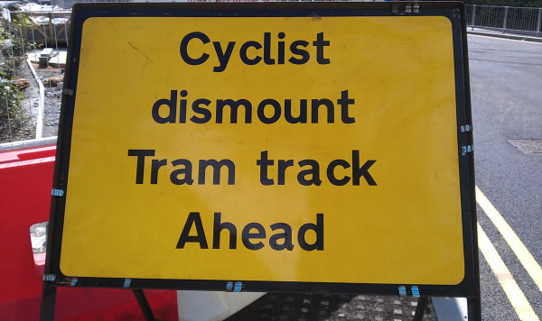 A sign reading "Cyclist dismount Tram track Ahead", displayed on Livery Street, Birmingham, England, during work to build the Midland Metro line one extension